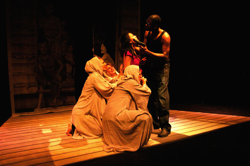 Number 18 is threatened by her pimp in the Canadian play She Has a Name